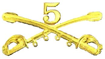 United States Crossed Cavalry Sabers, 5th Cavalry, paint shop modified from hand drawn color sketch with a number 5.